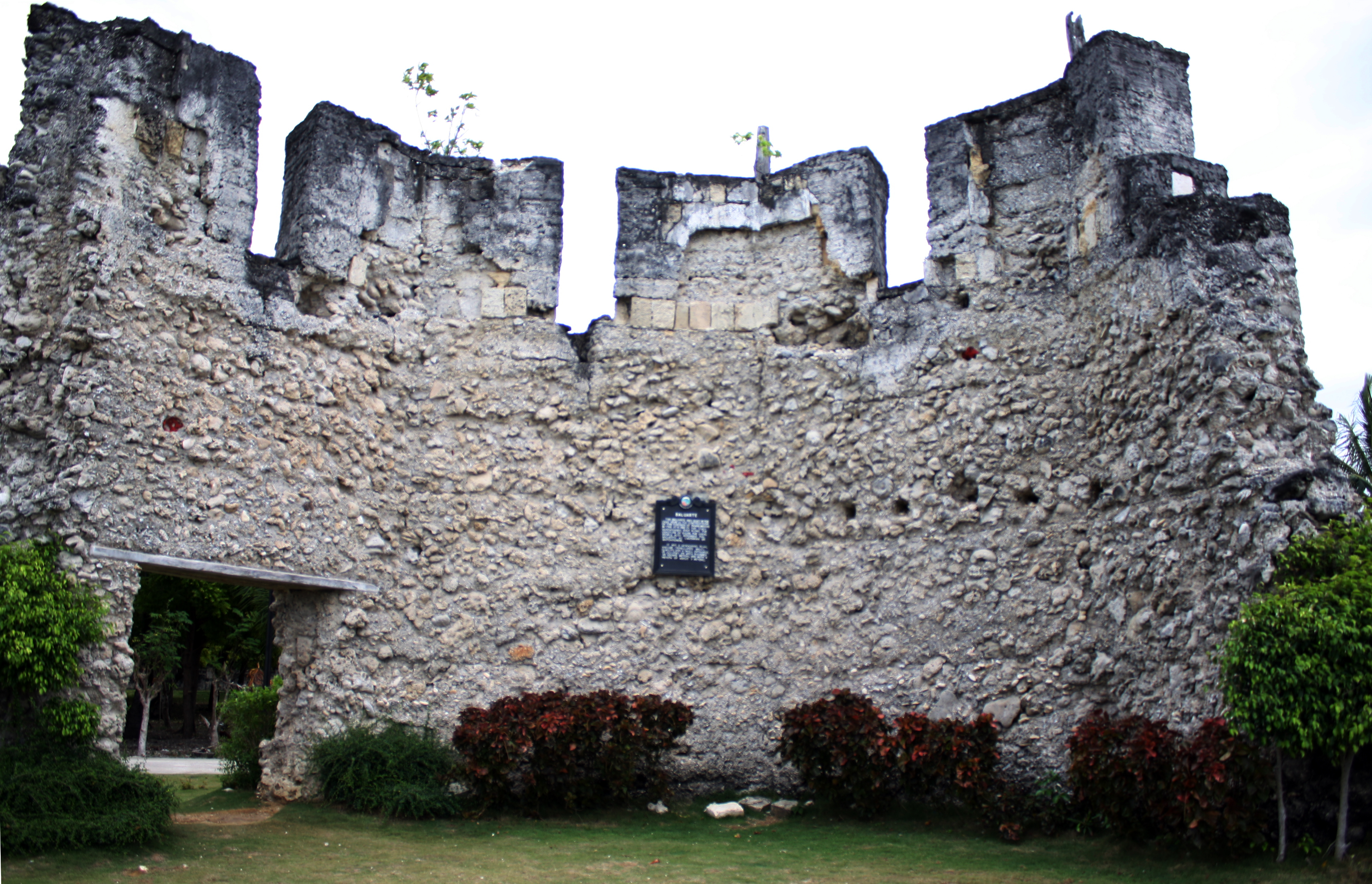 Baluarte, Lantawan or watchtower - made up of coral stones and built along the coastline of Oslob. Constructed in 1788, by Father Bermejo served as a lookout stations in detecting the coming of Moro pirate ships which helped Father Bermejo fought and won many wars.